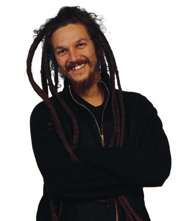 Nándor Tánczos; former Green Party MP OTRS request pending